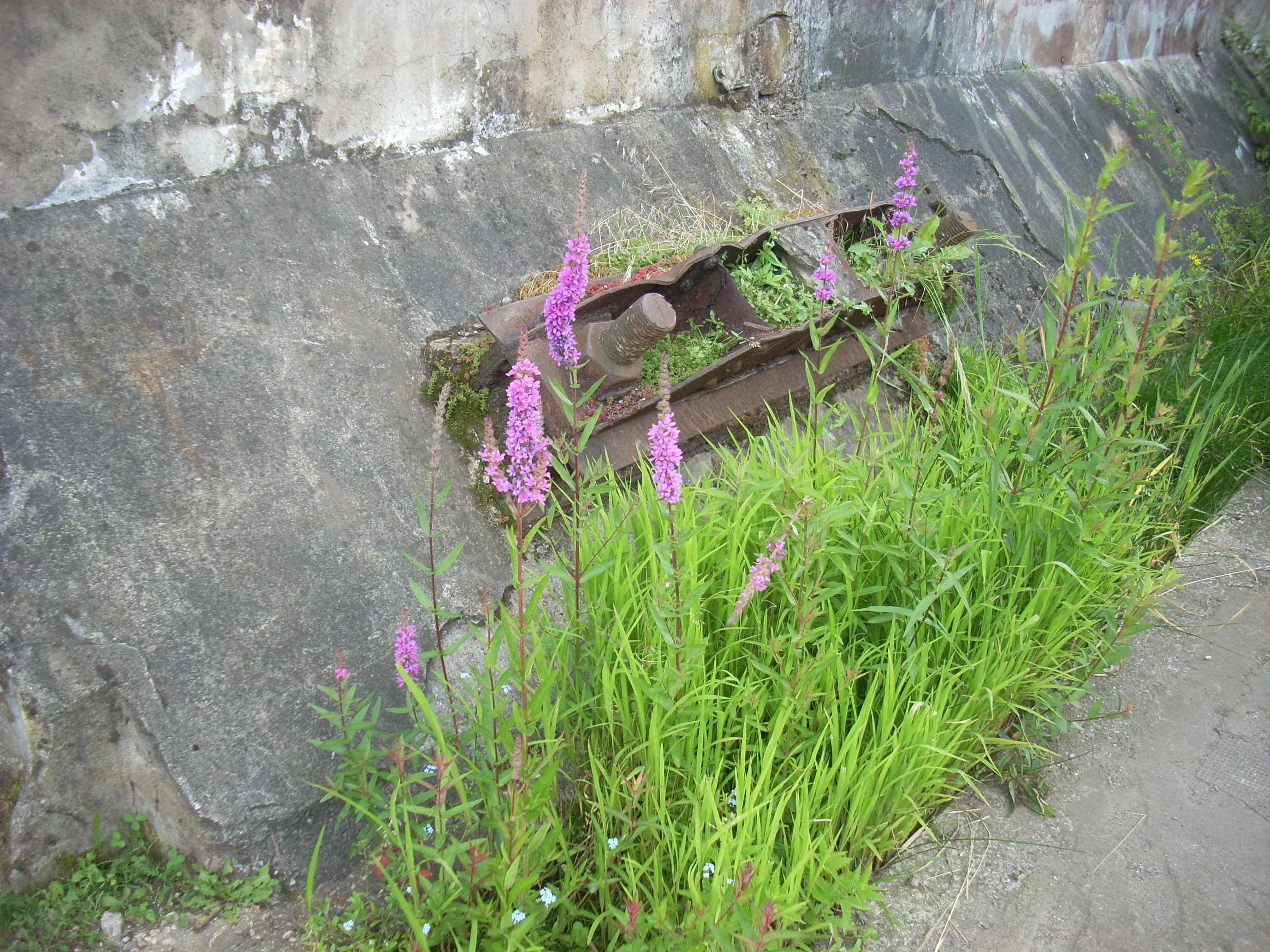 succession between bolts and in wallcracks